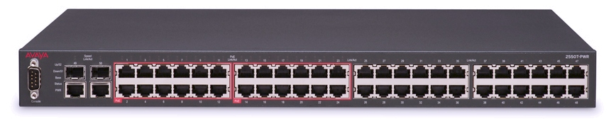 This is a picture of the front of a 2550T-PWR